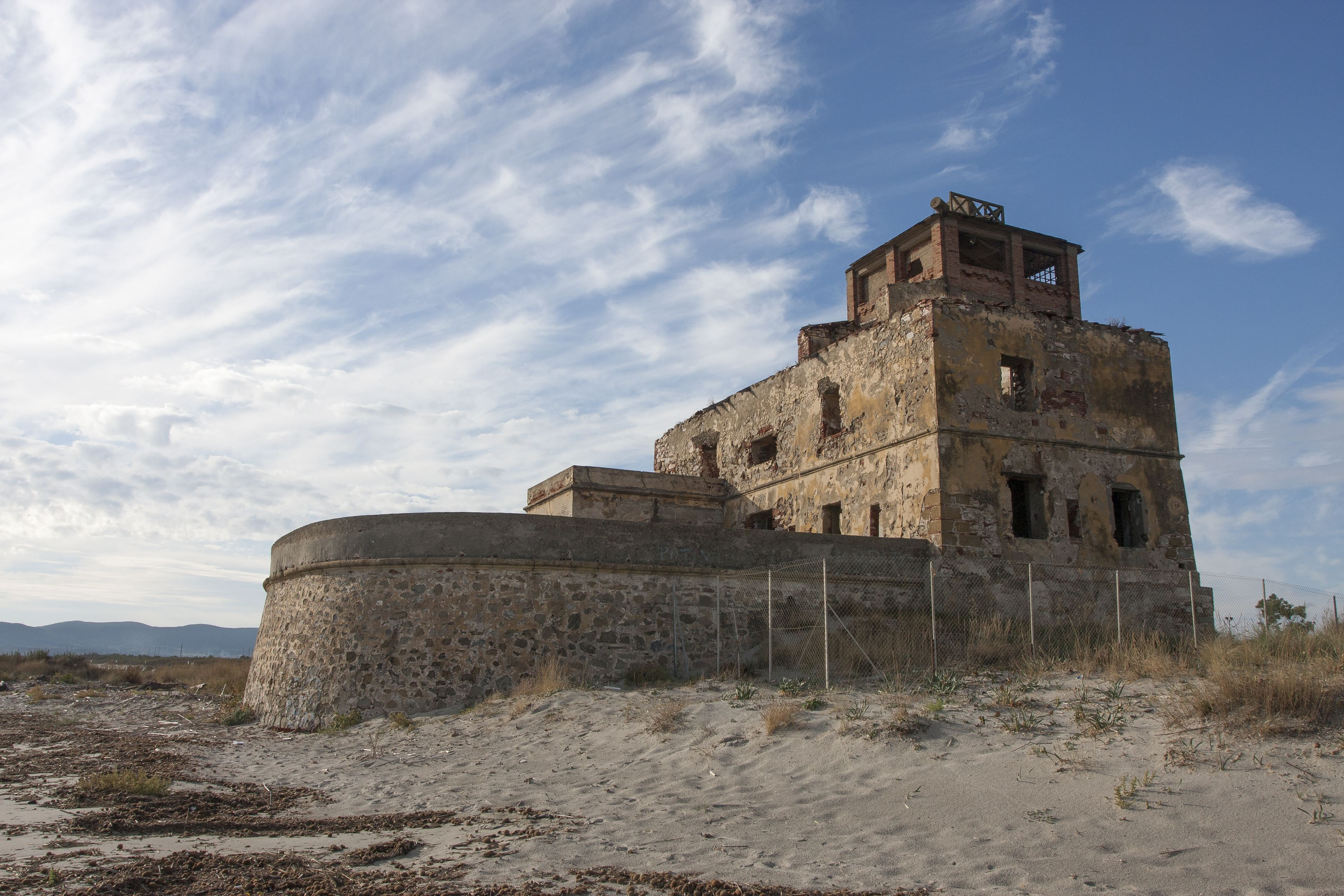 Torre del sale, Toscana, Italy. XVIII century tuscan coastal tower.